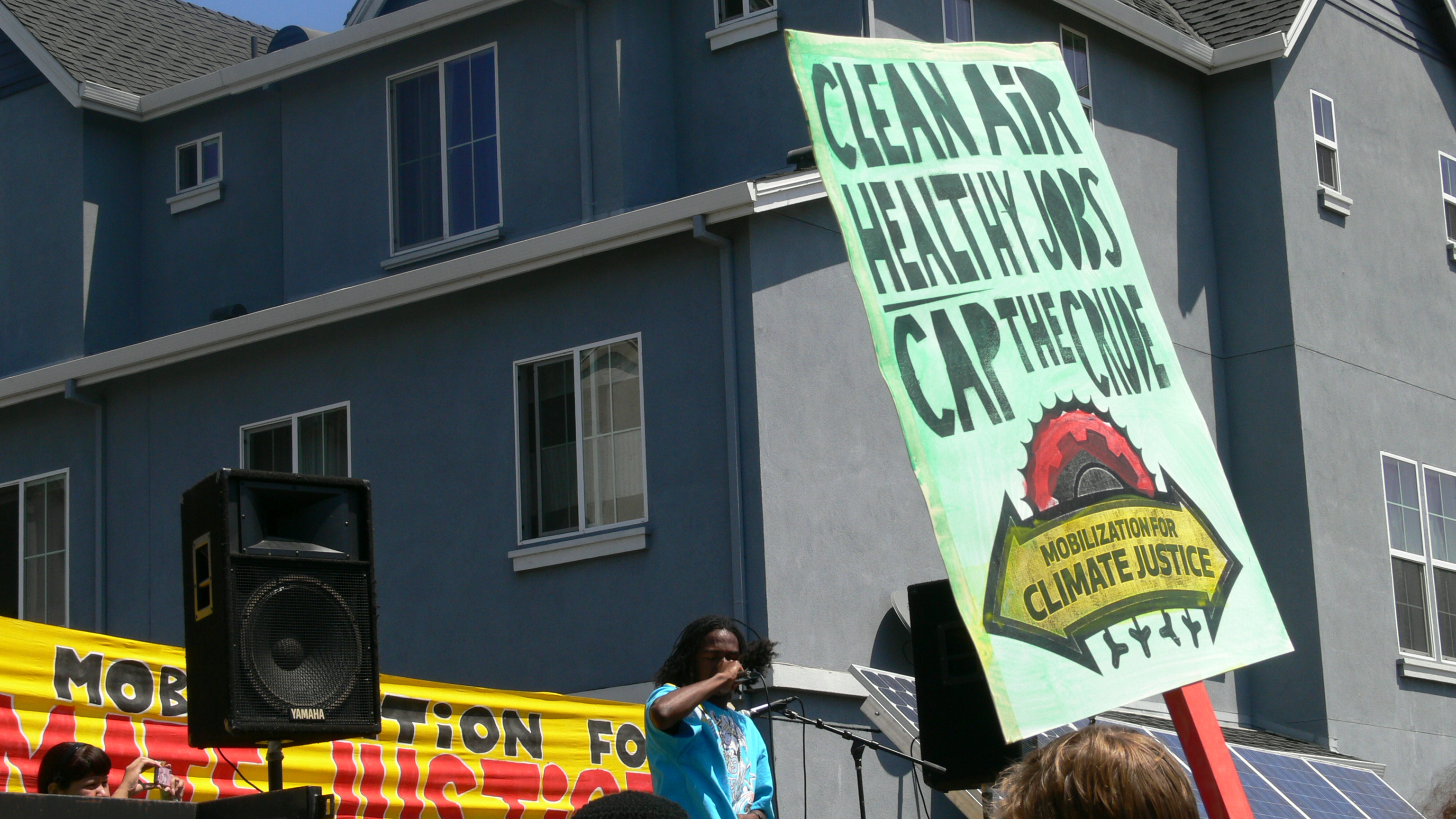 Mass Mobilization at the Chevron Oil Refinery in Richmond, California, USA Saturday, August 15